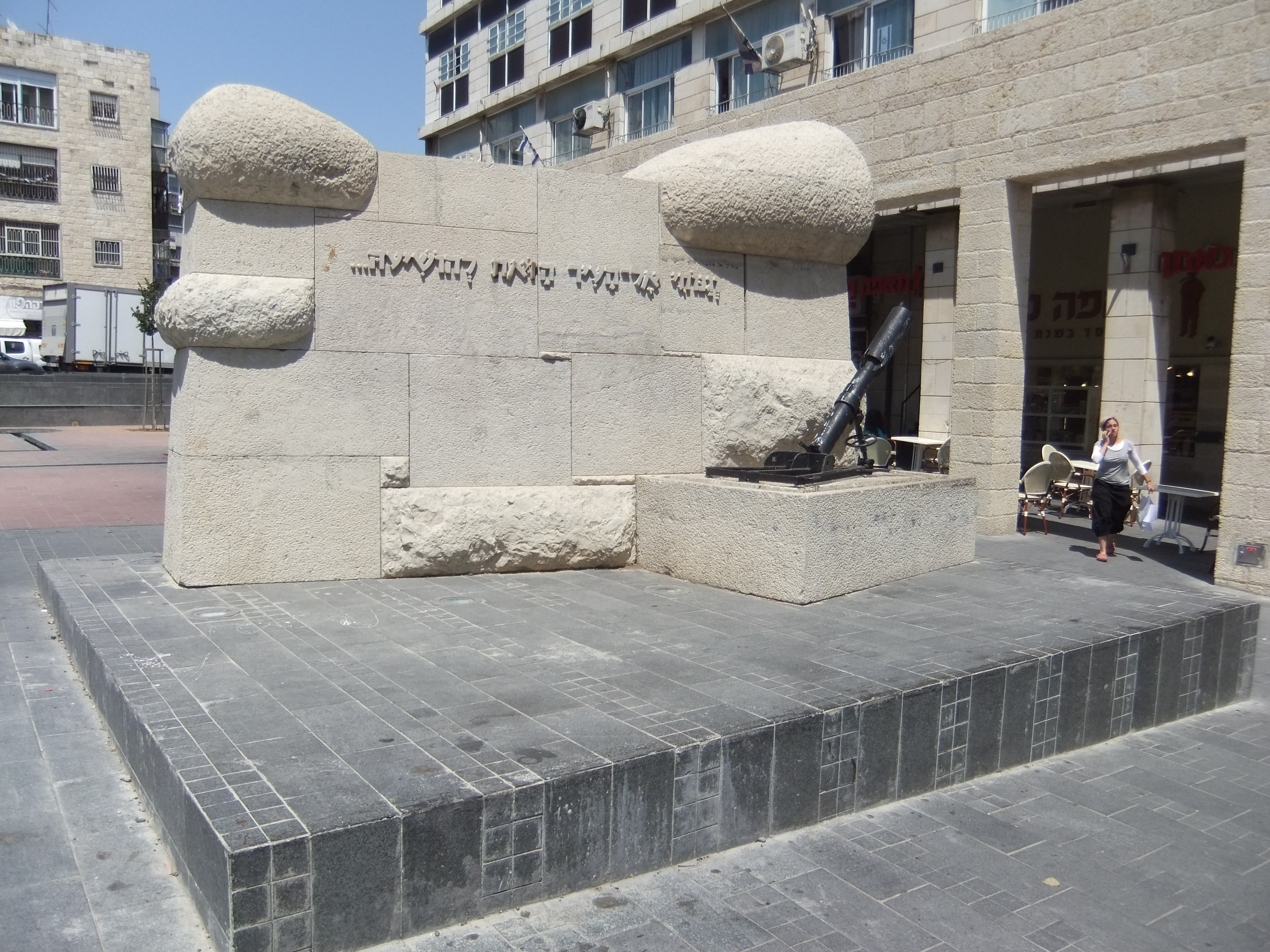 Davidka Square in Jerusalem